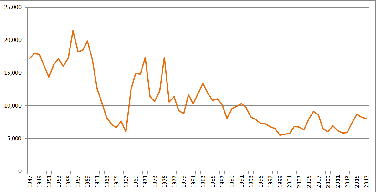 This is a graph showing Luton Town F.C.'s average attendances for each season up to the end of 2007-08. I made it myself sourcing statistics from